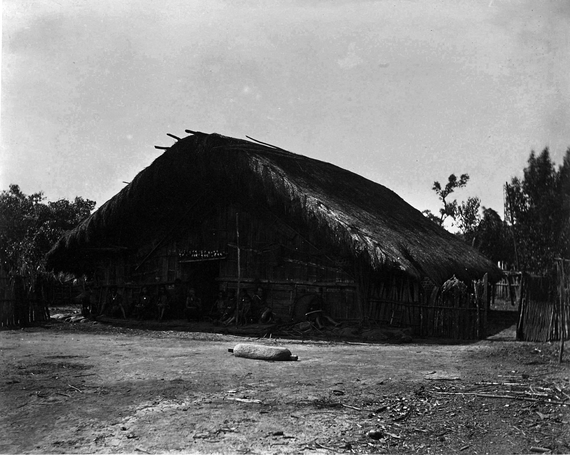 Photograph in From Afong, Photographer.